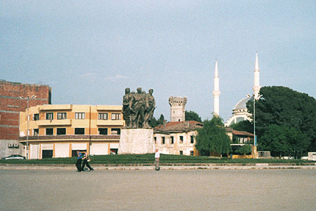 Shkodër, Albania